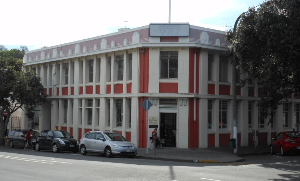 New Zealand Insurance Building at 7 Tennyson Street, Napier.